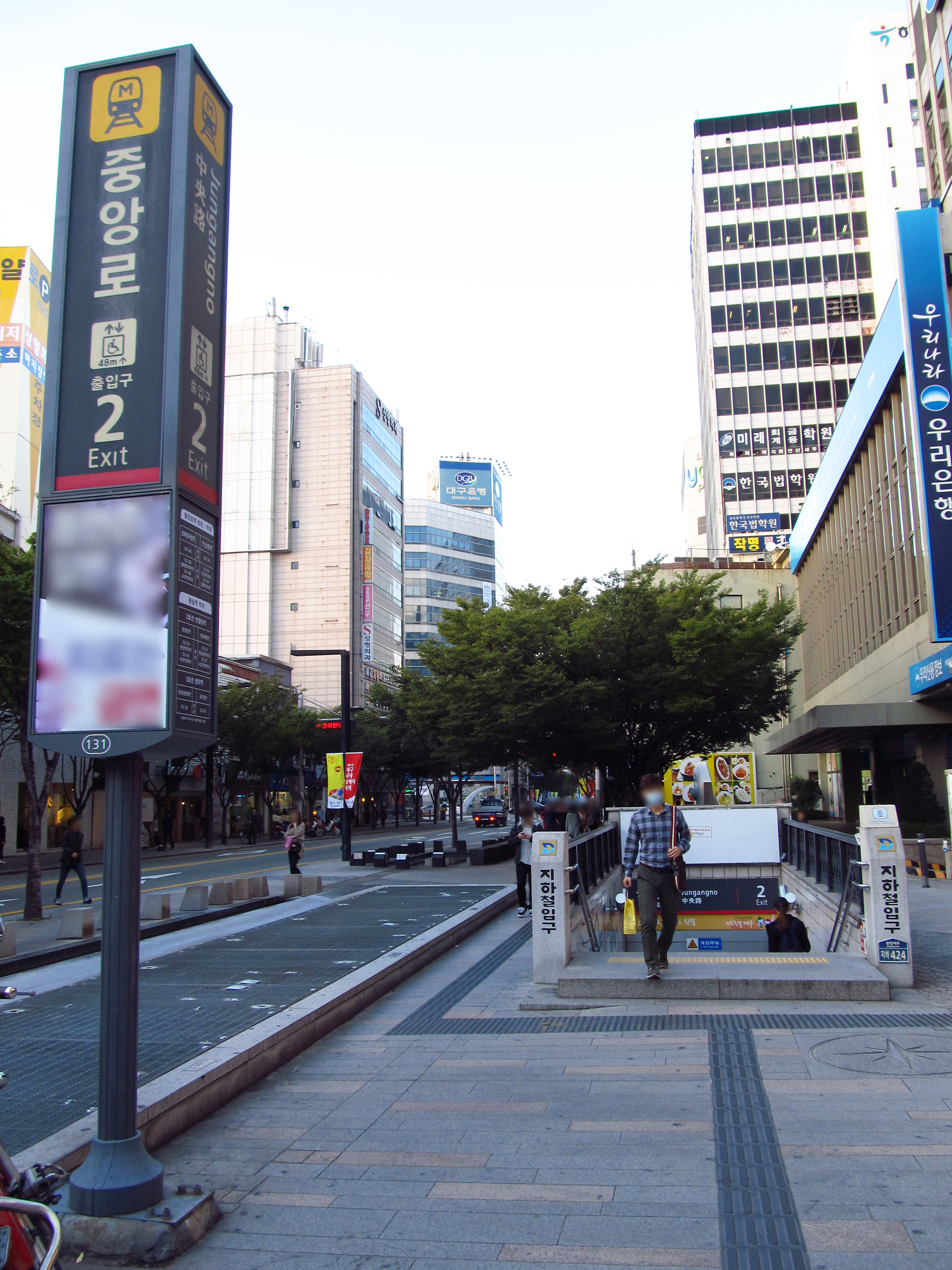 The entrance no.2 to Jungangno Station on the Daegu Metro Line 1.